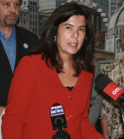 Alvarez speaking at IVIIPO Press Conf